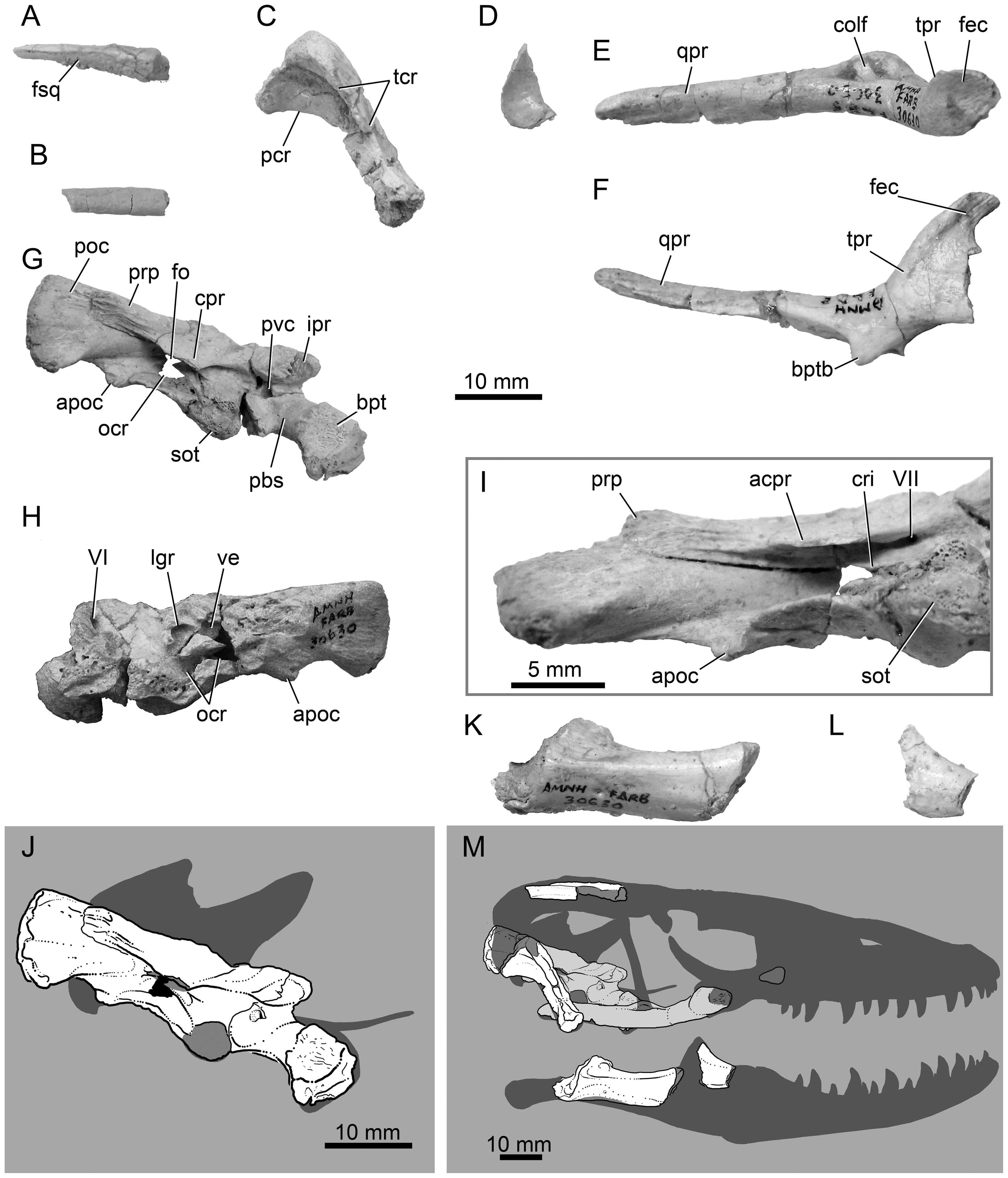 Original figure caption: “Holotype (AMNH FR 30630) skull elements for Varanus (Varaneades) amnhophilis nov. taxon. Fragmentary right postorbital (A) and squamosal (B) in lateral view. (C) Right quadrate in lateral view. (D) Fragmentary palatine in ventral view. Right pterygoid in lateral (E) and ventral (F) view. Note the absence of pterygoid teeth. Right side of the braincase (parabasisphenoid, prootic, basioccipital, and otooccipital) in lateral view (G) and medial view (H). (I) Otic region of the braincase in ventral view showing the base of the crista interfenestralis and single opening to the facial foramen. (J) Reconstruction of the braincase in right lateral view with reconstructed areas appearing as semi-opaque shadows. (K) Partial right surangular-prearticular/articular complex in lateral view. (L) Partial right coronoid in lateral view. (M) Reconstruction of the cranium and mandible in right lateral view with reconstructed areas appearing as semi-opaque shadows. All scale bars 10 mm, except in (I) wherein the scale bar is 5 mm. Abbreviations: apoc, paroccipital tuberosity; acpr, anterostapedial process of the prootic crest; bpt, basipterygoid process; bptb, basipterygoid buttress; colf, columellar fossa; cpr, prootic crest (crista prootica); cri, crista interfenestralis; fec, ectopterygoid facet; fo, fenestra ovalis; fsq, squamosal facet (on postorbital); ipr, inferior process; pbs, parabasisphenoid; pcr, posterior crest; ped, hypapophyseal pedicel; poc, otooccipital paroccipital process; prp, prootic paroccipital process; poz, postzygapophysis; pvc, posterior opening of the vidian canal; qpr, quadrate process; sot, spheno-occipital tubercle; syn, synapophysis; tcr, tympanic crest; tpr, transverse process; I–XII, cranial nerves.”